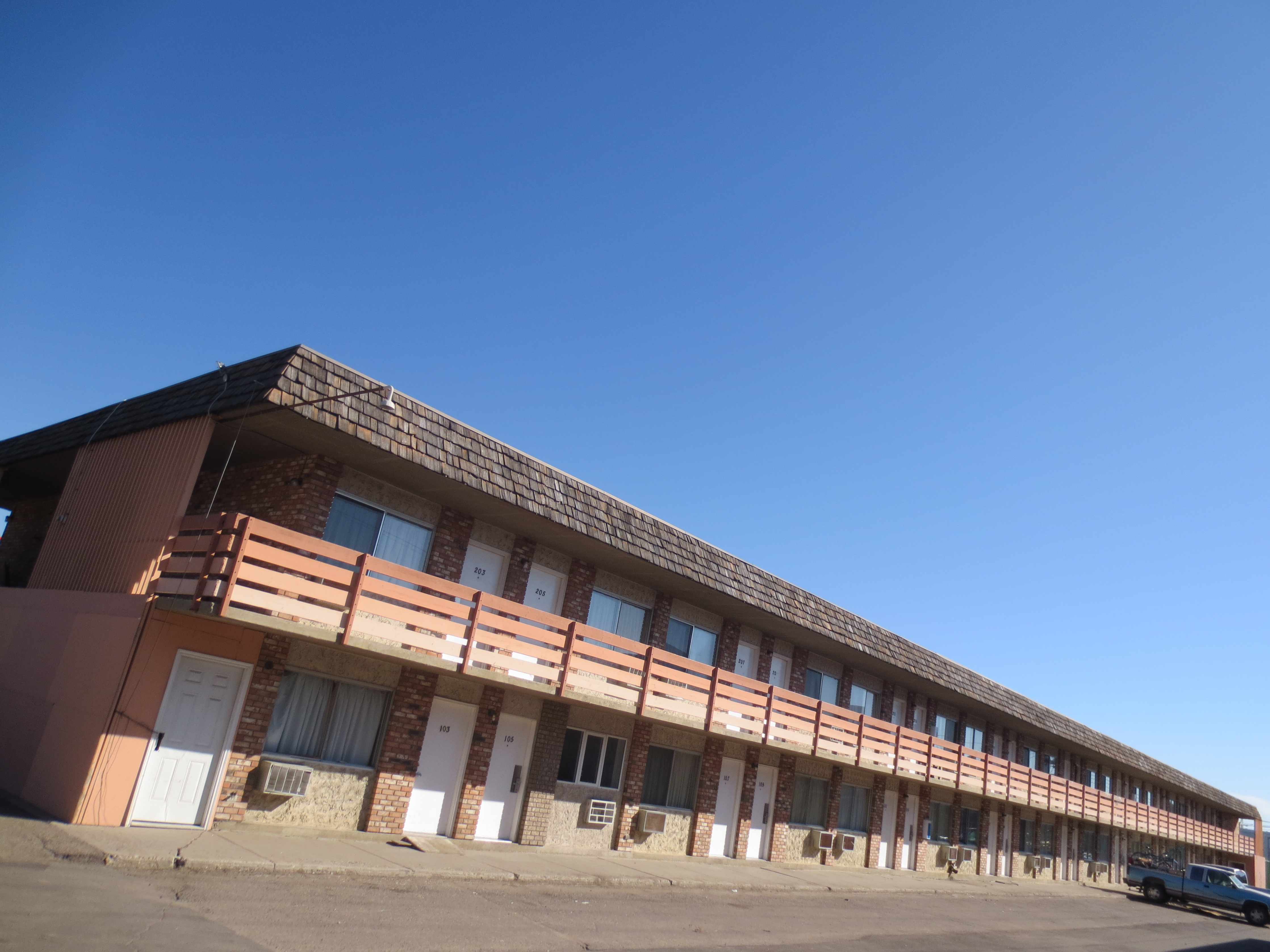 Northwoods Inn and Suites, Saskatoon